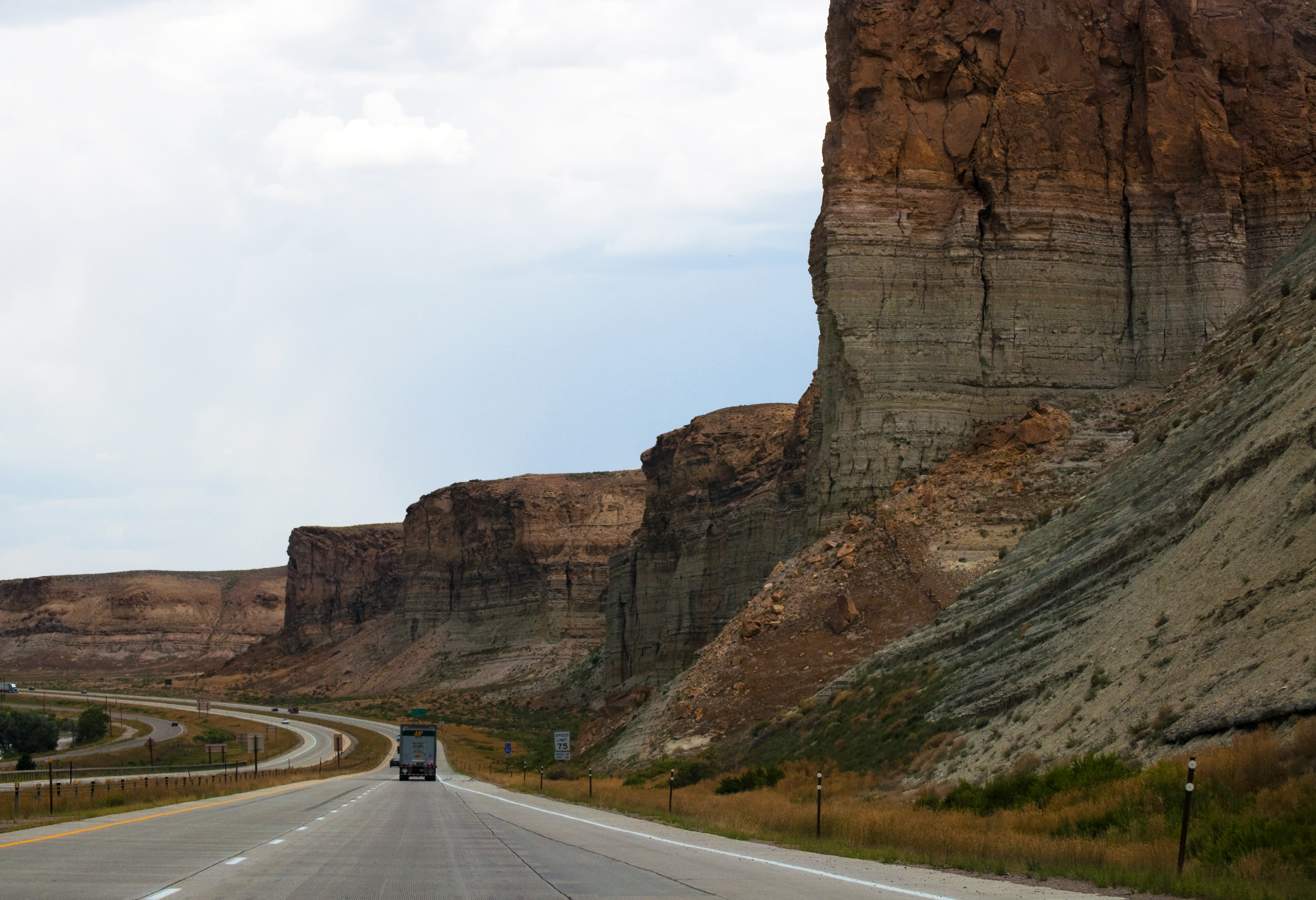 road trip, the west, rocky mountains, interstate highway system